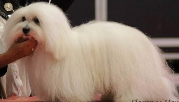 Coton de Tulear at the exposition center